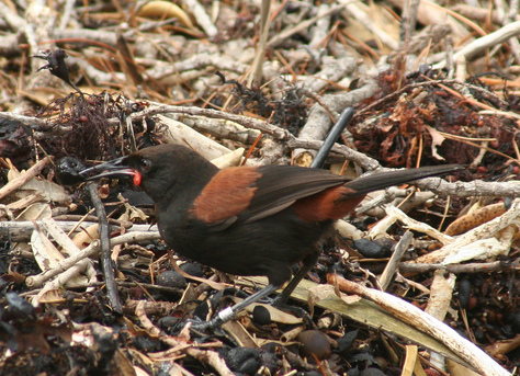 North Island Saddleback or Tieke (Philesturnus rufusater). "Foraging in the tideline on Tiritiri Matangi Island, New Zealand. Probably once a common behaviour in New Zealand, now sadly restricted to a few islands".